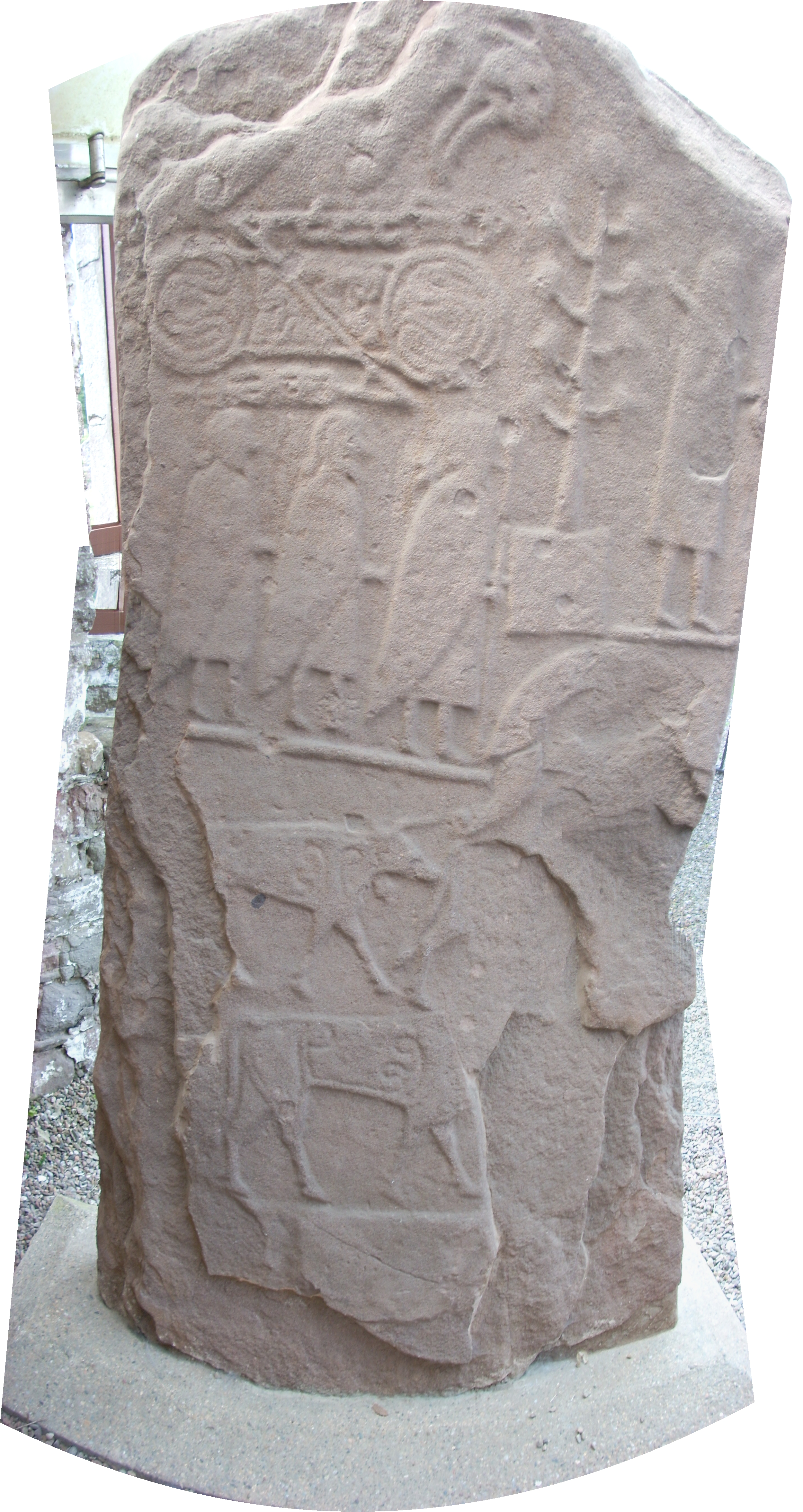 Composite of the back of the Eassie Stone, a Pictish stone in Eassie churchyard, Scotland.